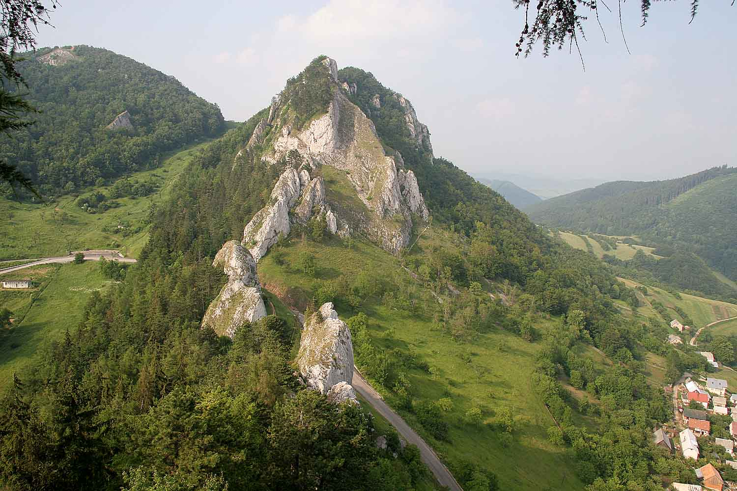 Vršatecká Bradla, Biele Karpaty—White Carpathians Mountains, district Ilava, Slovakia, the houses on the right - Vršatské Podhradie. Limestone formation belongs to Czosztyn unit of Pieniny Klippen Belt